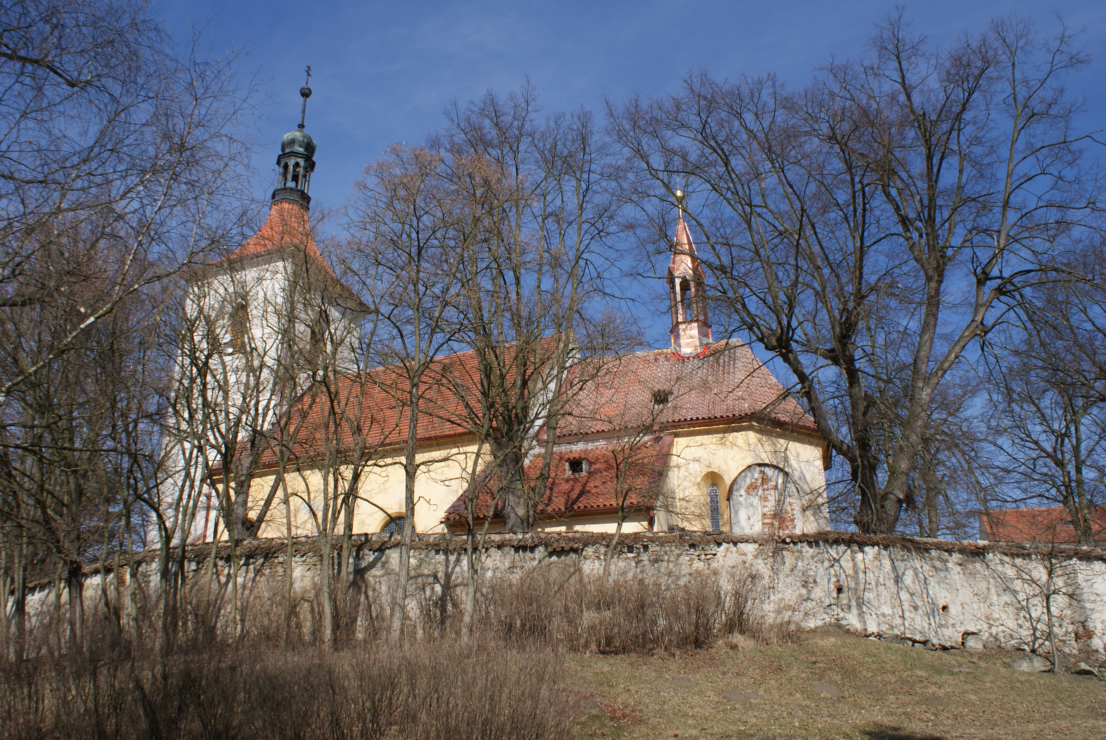 Myšenec a village in Písek district, Czech Republic, St Gall’s church